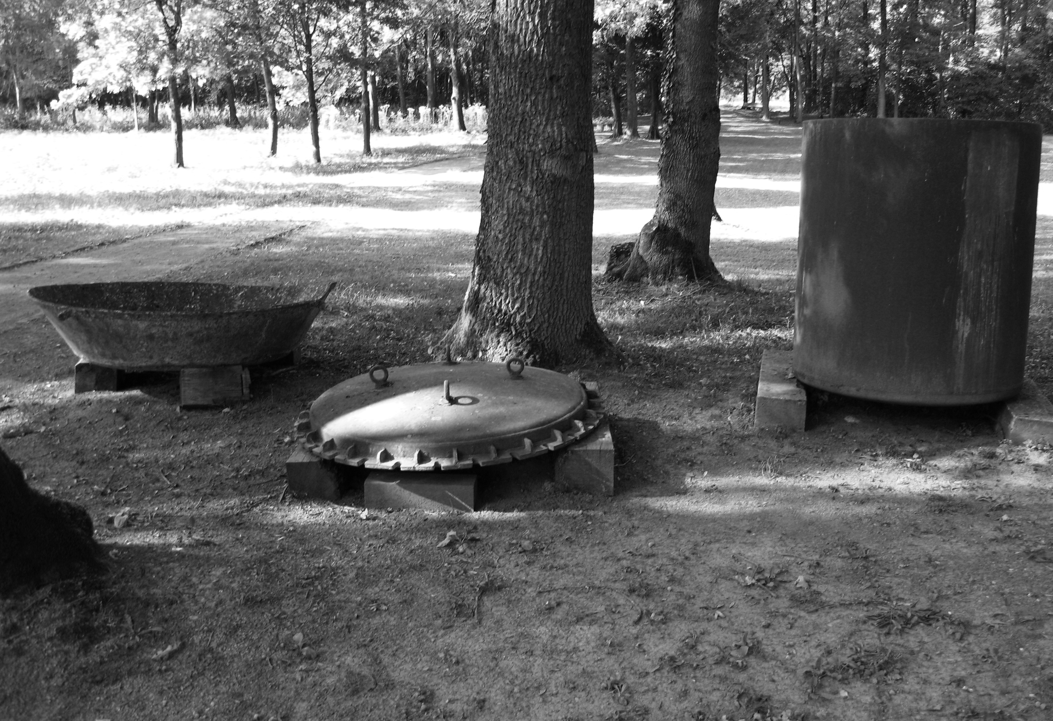 Kazans were used for making soap of human fat of killed prisoners in camp Gradina and Jasenovac.